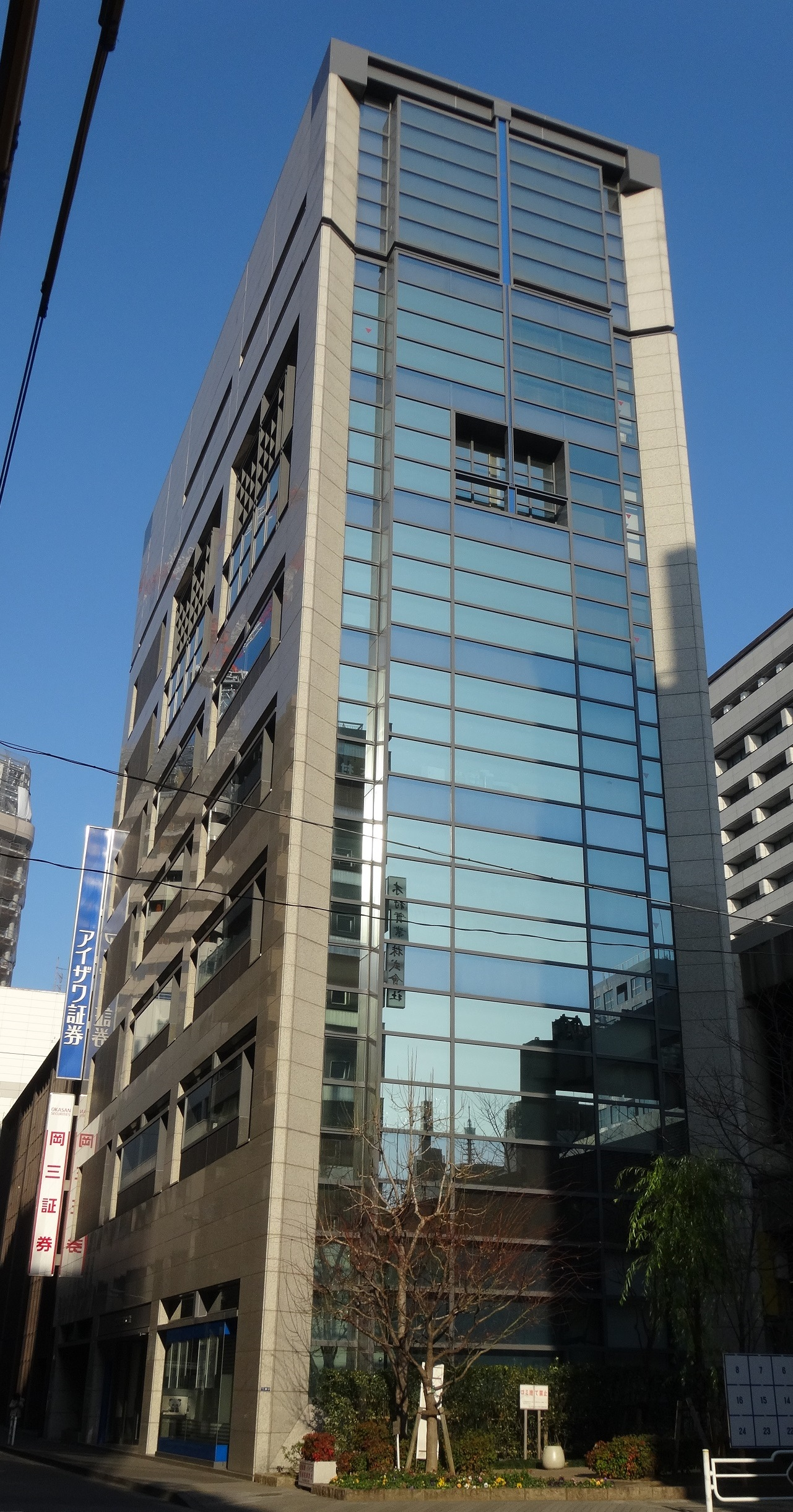 Aizawa Secirities the head office(Chuo-ku,Tokyo,Japan)